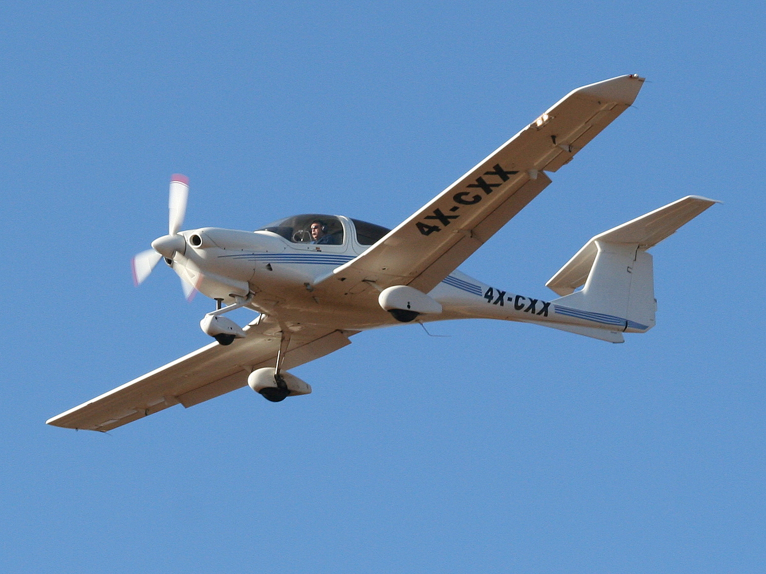 At Herzliya Airport